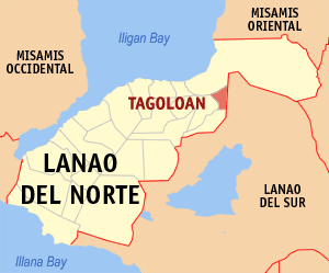 Map of the Lanao del Norte showing the location of Tagoloan